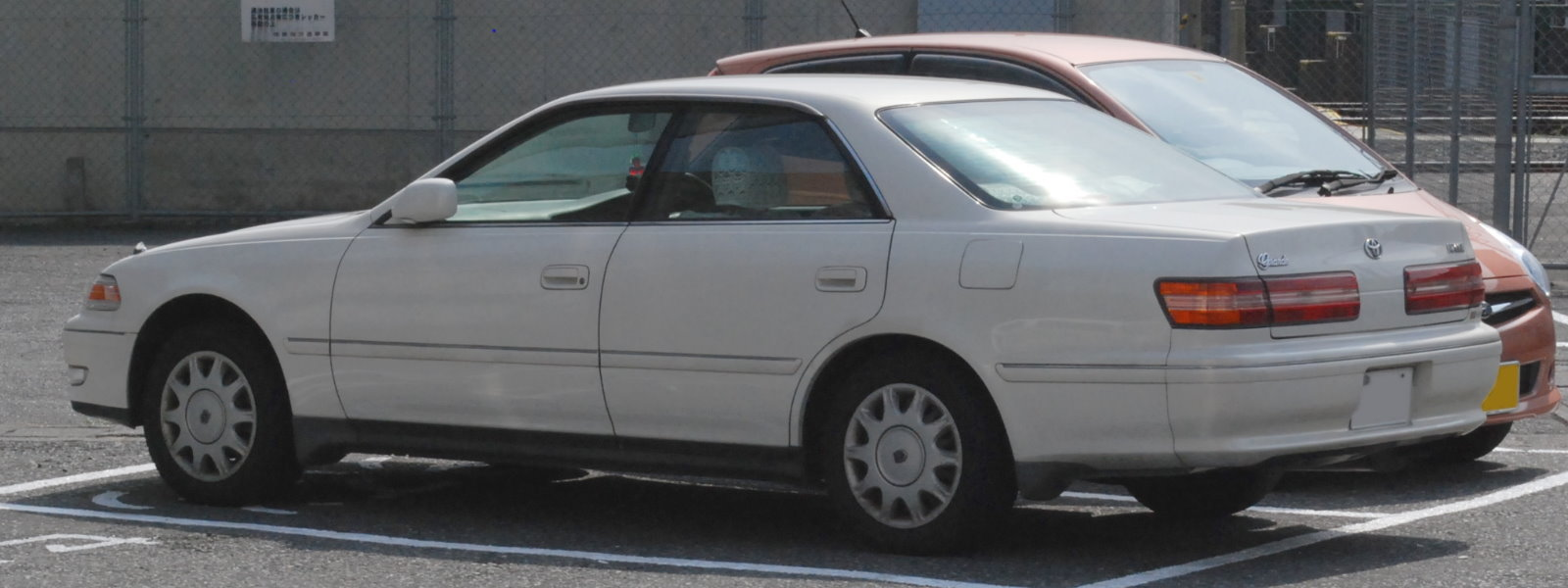 8th generation Toyota Mark II (1996/9 - 1998/8)